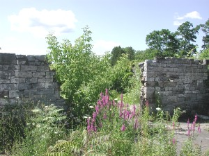 Old Erie Canal lock at Durhamville, New York Image copyleft: Image taken by me, released under GFDL Pollinator 03:50, Nov 9, 2004 (UTC)